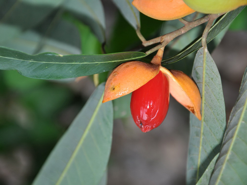 Knema globularia in Bulon Island, Southern Thailand